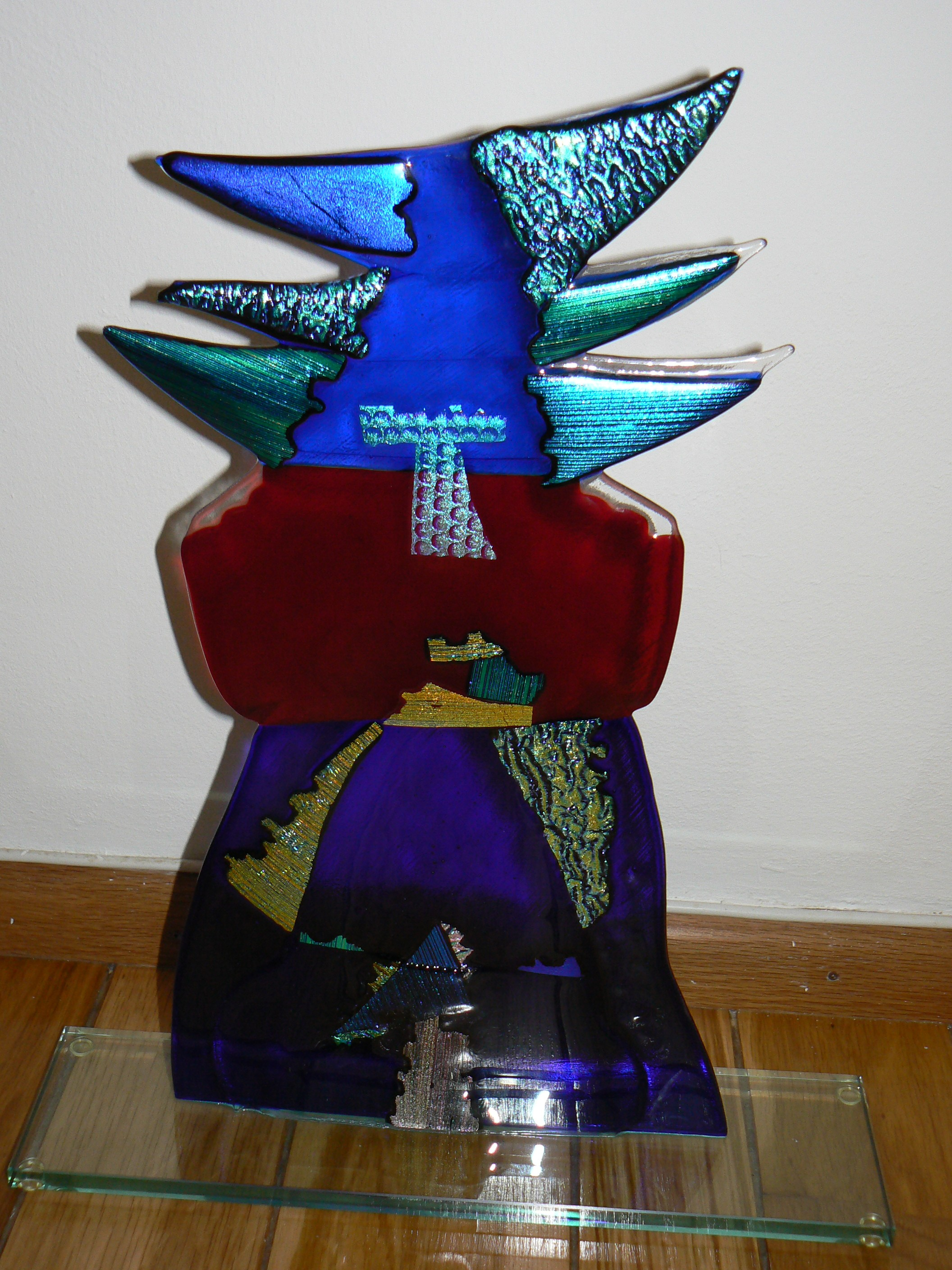 glassfusing object Untitled (2006) by Bert Grotjohann in The Netherlands